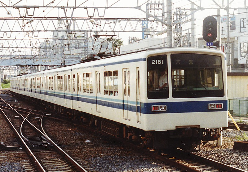 Tobu Railway 2080 series six-car EMU set 2181 at Kasahiwa Station on a Noda Line service to Omiya